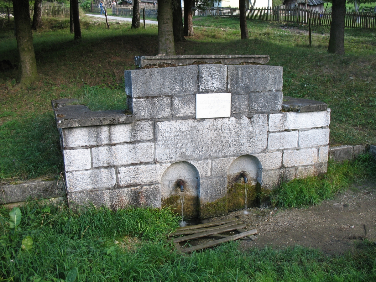 Spring near Han (motel from turkish times) in Kremna near Užice, Serbia.